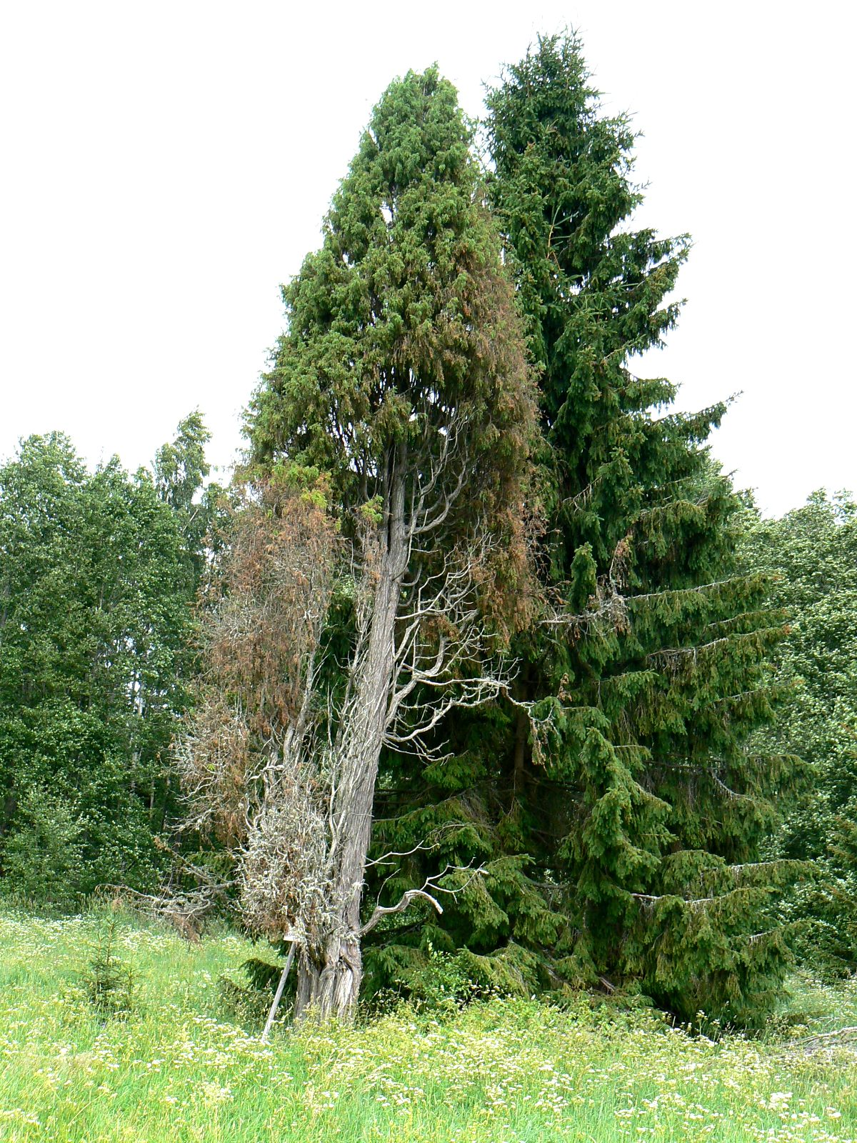 Jõesaare kadakas, the thickest Juniperus communis of Estonia